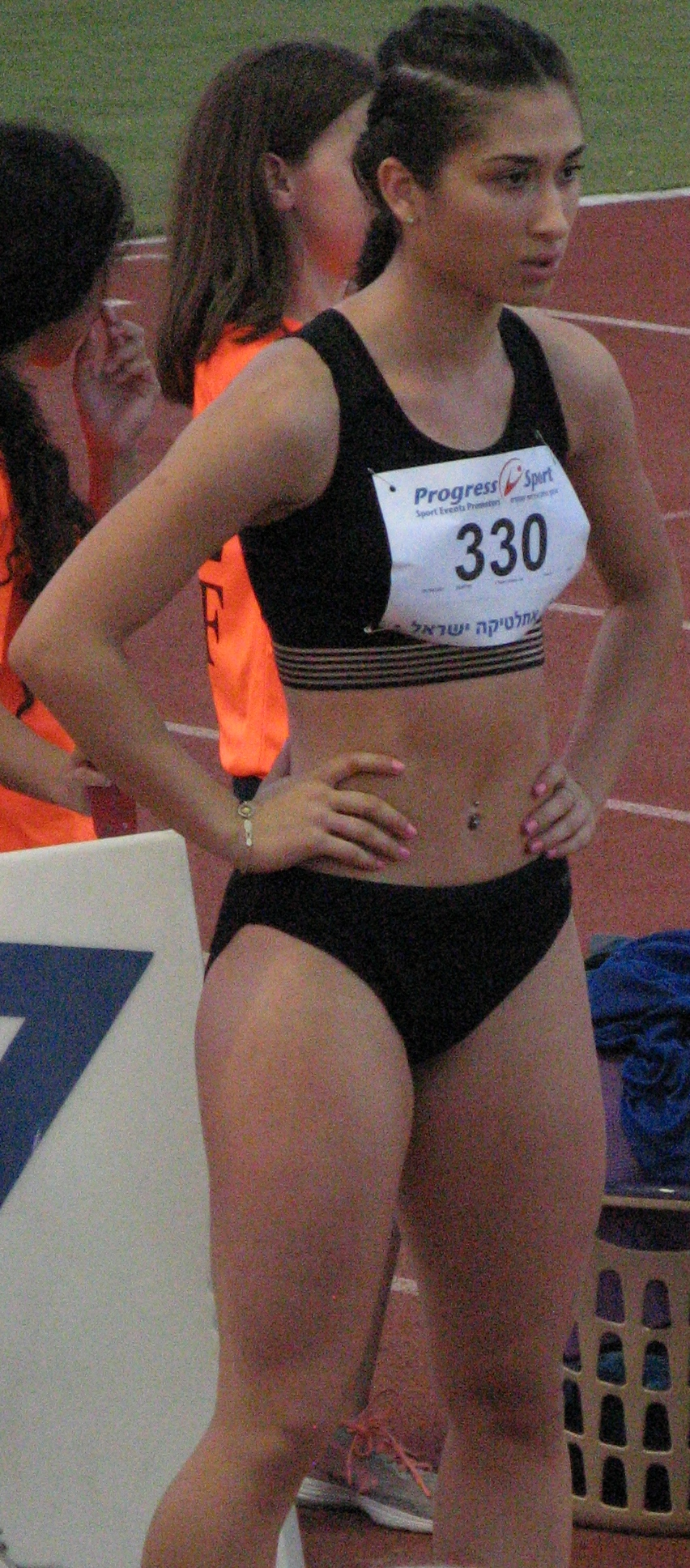 The Israeli sprinter Diana Vaisman during the 1st day of the Israel track and field championship 2016.